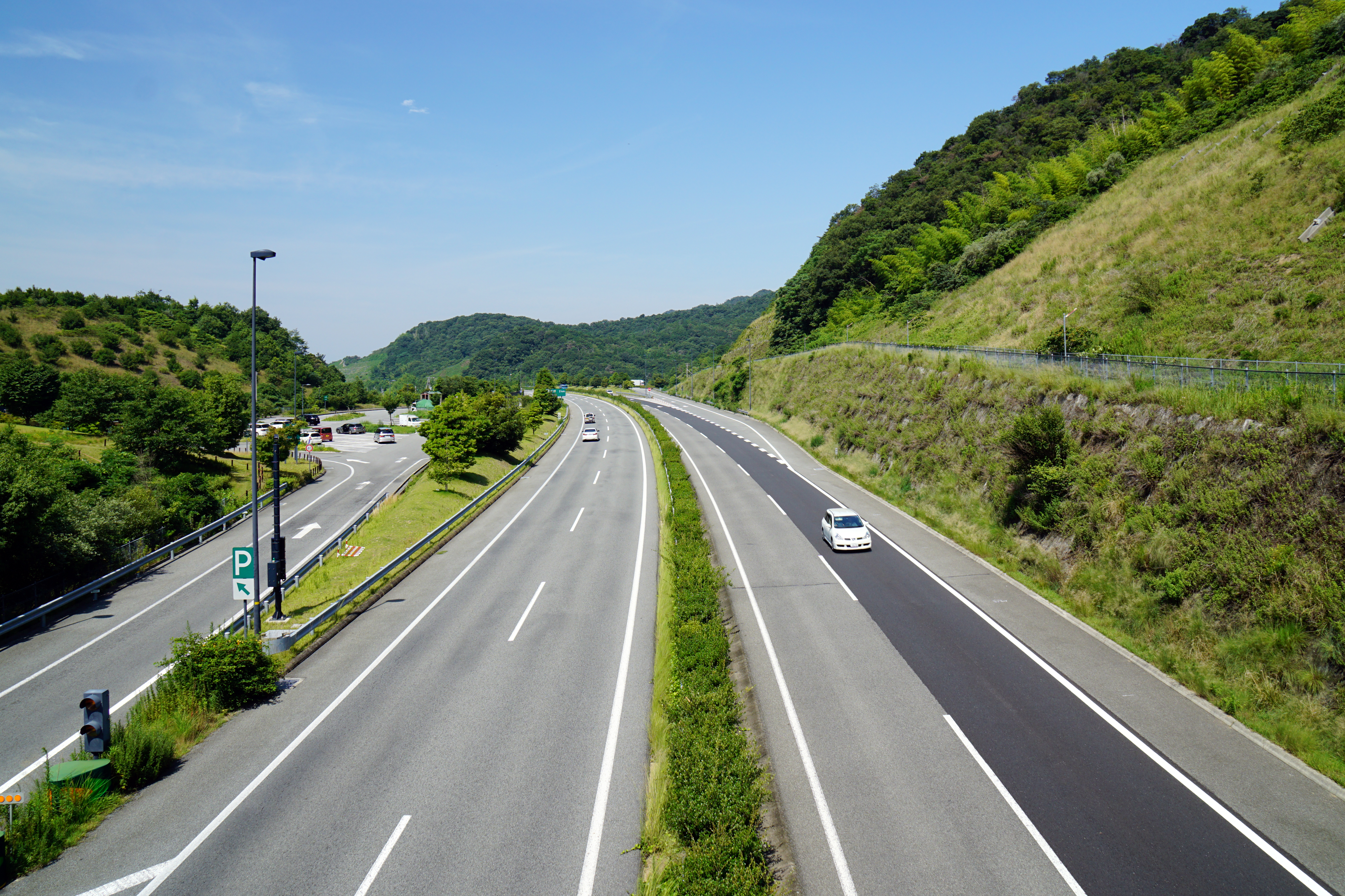 Narutonishi Parking Area in Naruto, Tokushima prefecture, Japan.